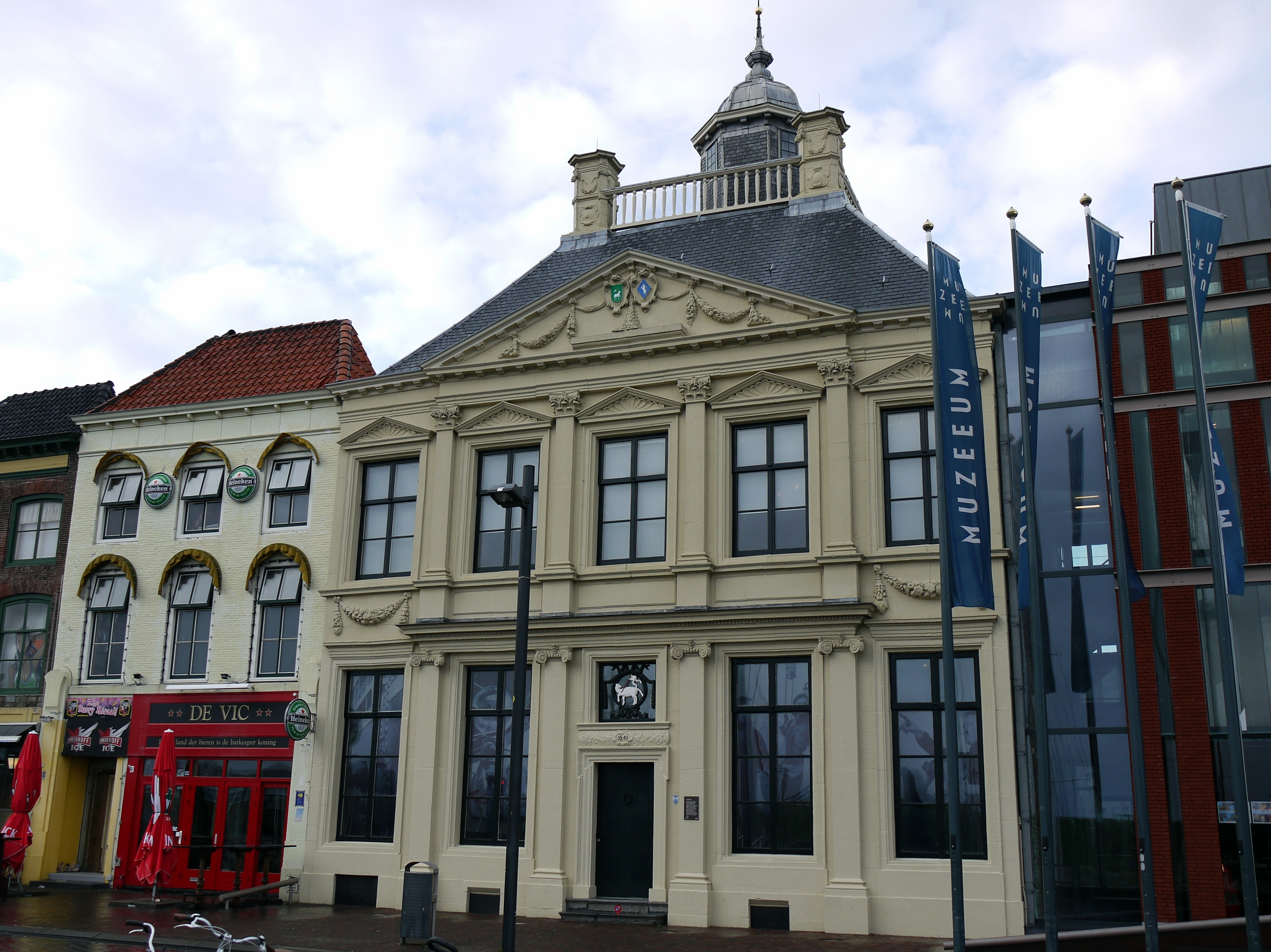 Lampsinshuis, a house in Vlissingen dated 1641. Its national-monument number is 37715.